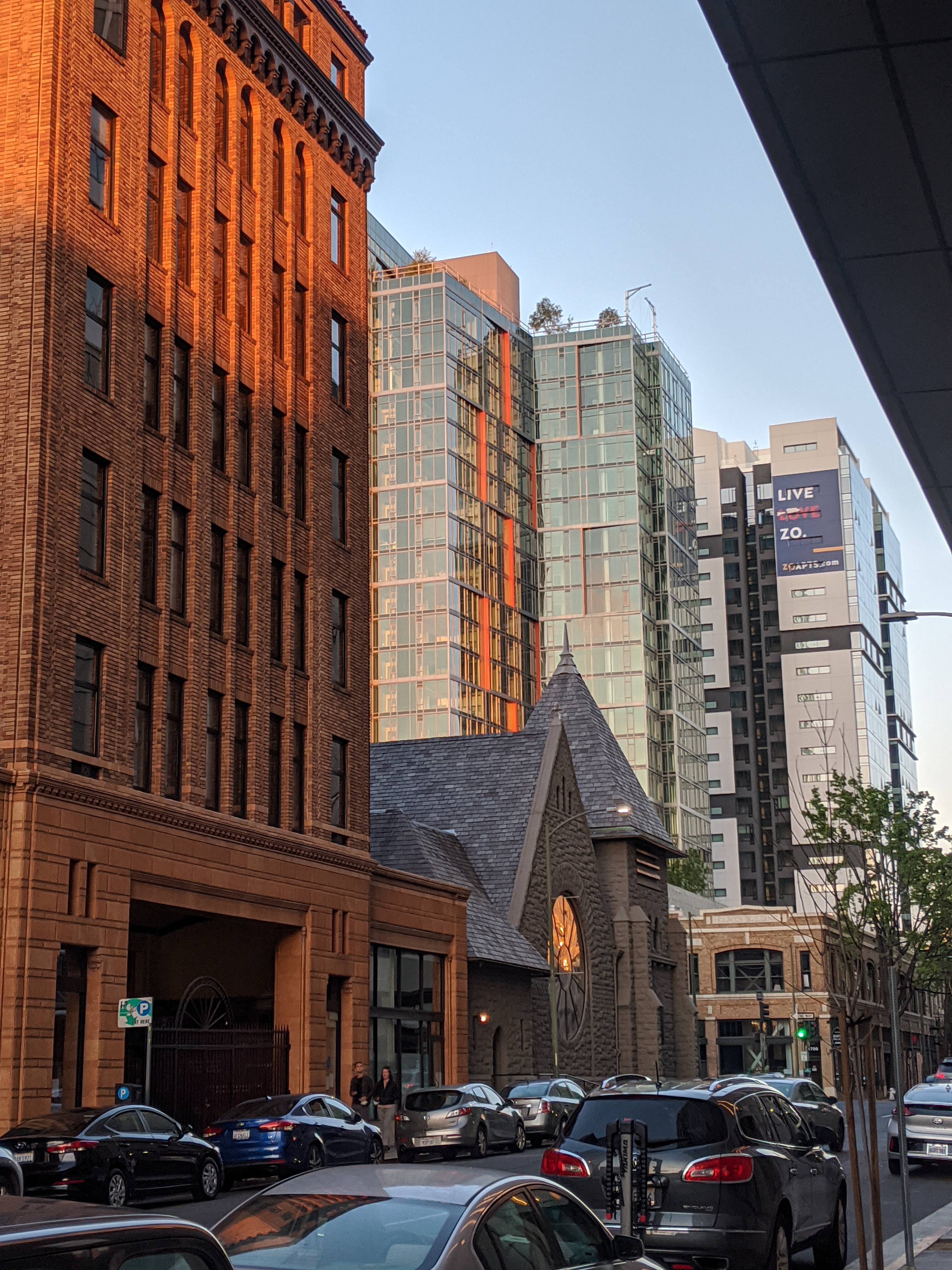 17th street looking